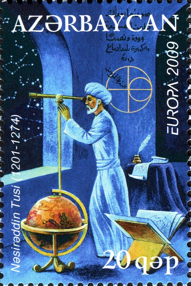 Nasraddin Tusi